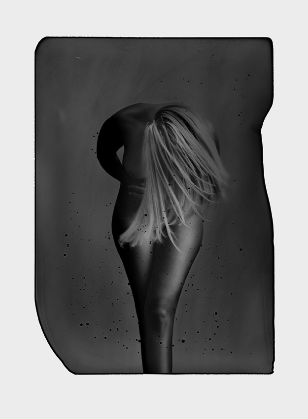 Lady from my Limit to Your Love serie